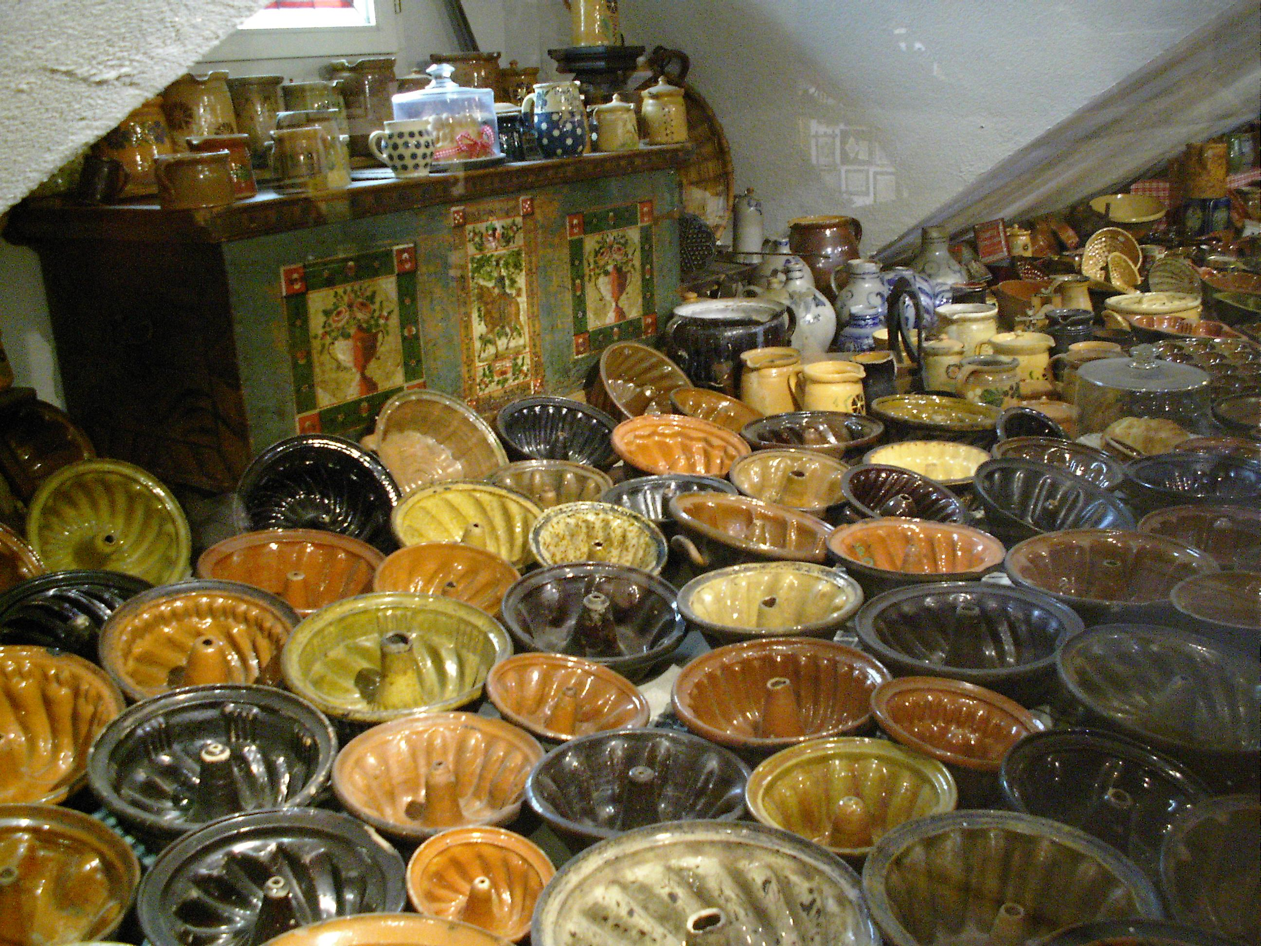 Differents alsatian earthenwear molds for Kouglof, 18t and 19th centuries